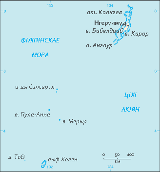 CIA map of Palau in Belarusian